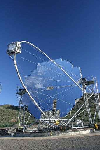 The main mirror (segment mirror) and the detector in the prime focus of the MAGIC-Cherenkov-telescope located at La Palma, Canary islands with almost all mirror segments installed.